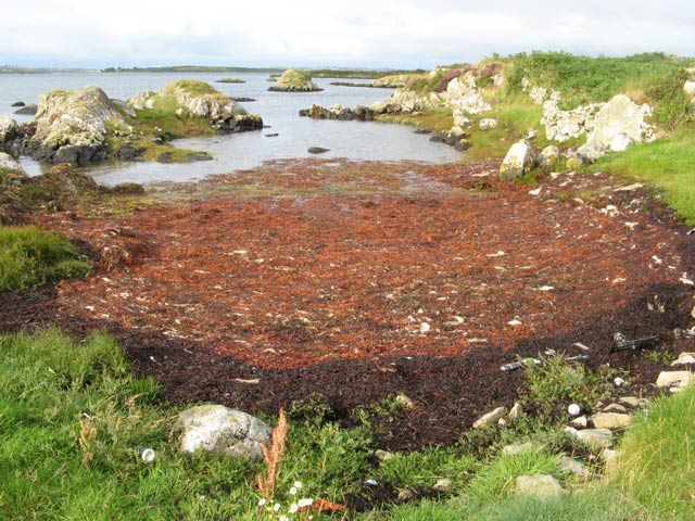 Seaweed accumulation. Sheltered inlets such as the one imaged here accumulate huge masses of floating seaweed driven onshore by spring tides and strong southerly winds. It is a shame that it is not harvested from such places, but it is presumed that it is not pure enough for the factory 1442400once mixed with the other flotsam seen here. It is also a major source of nutrients to the coastal ecology.